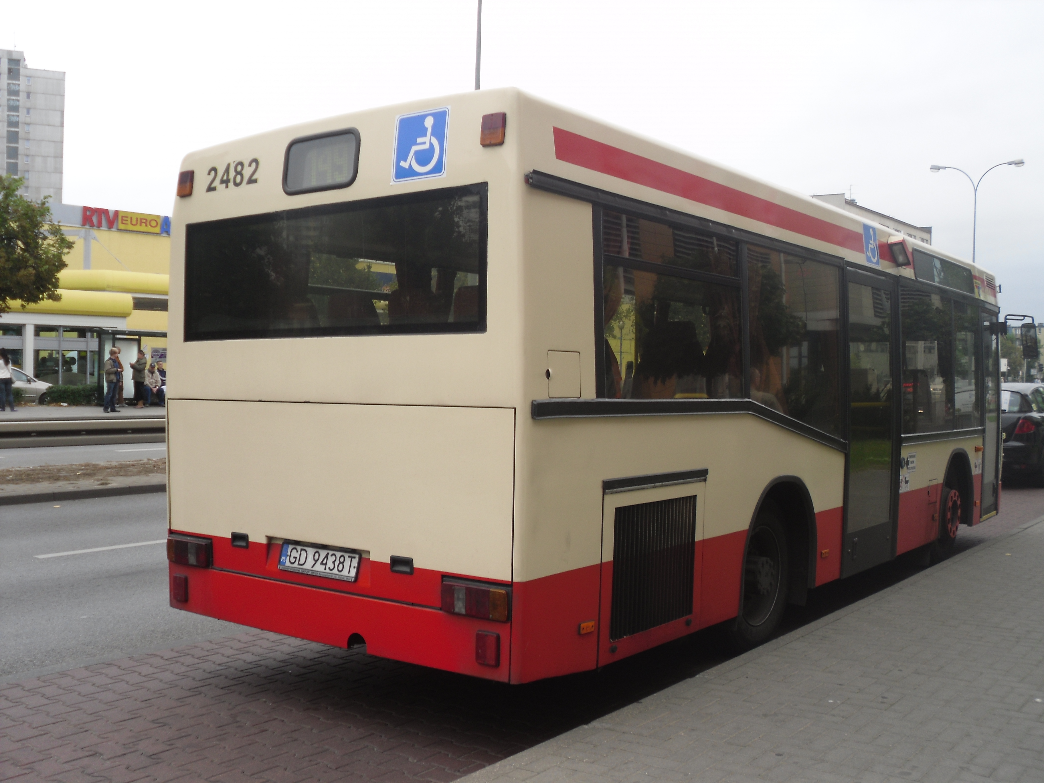 Neoplan N4007 bus (#2482) in Gdańsk, Poland. Built 1998, ZKM Gdańsk operator.